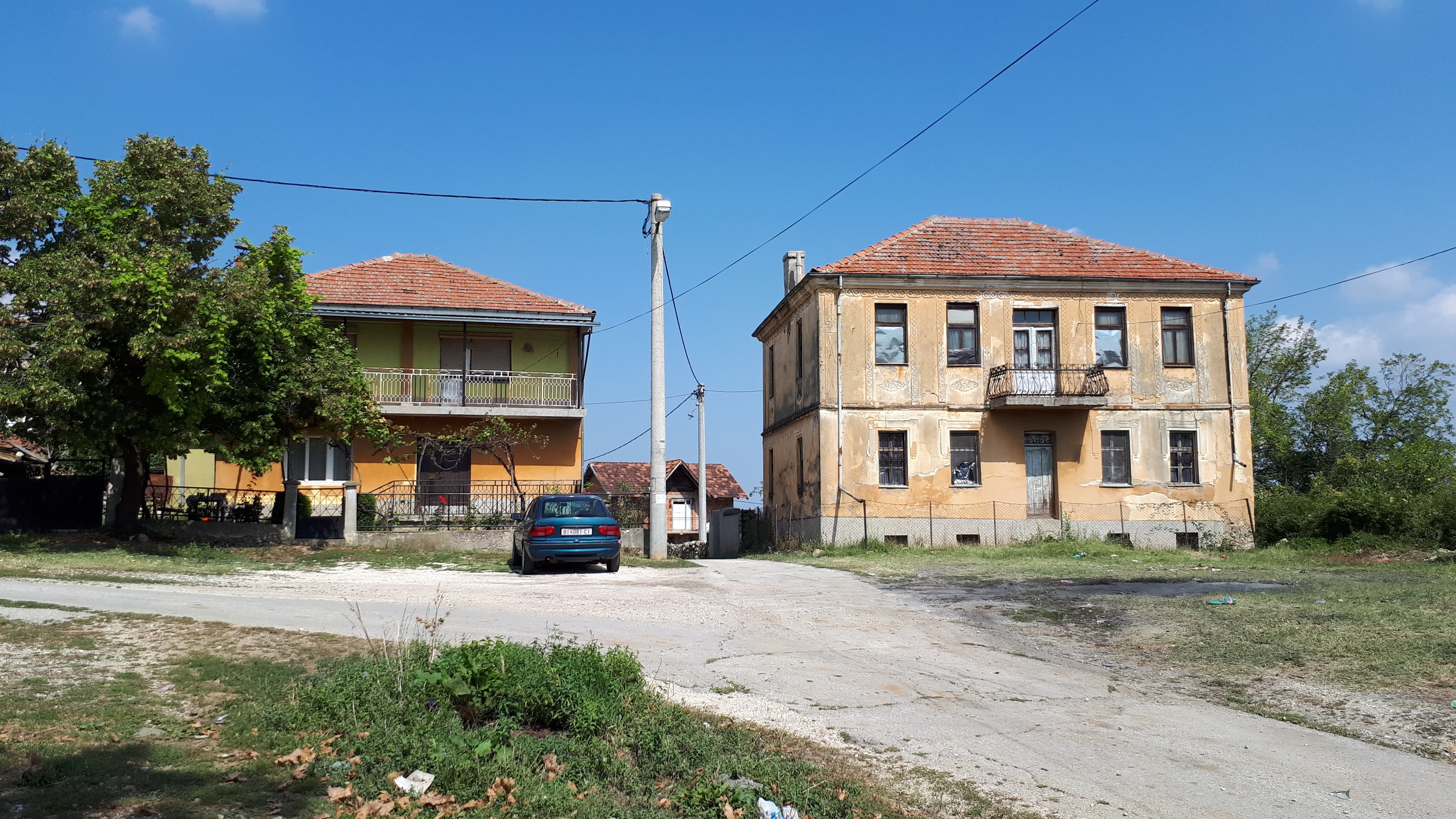 Center of the village Krstoar